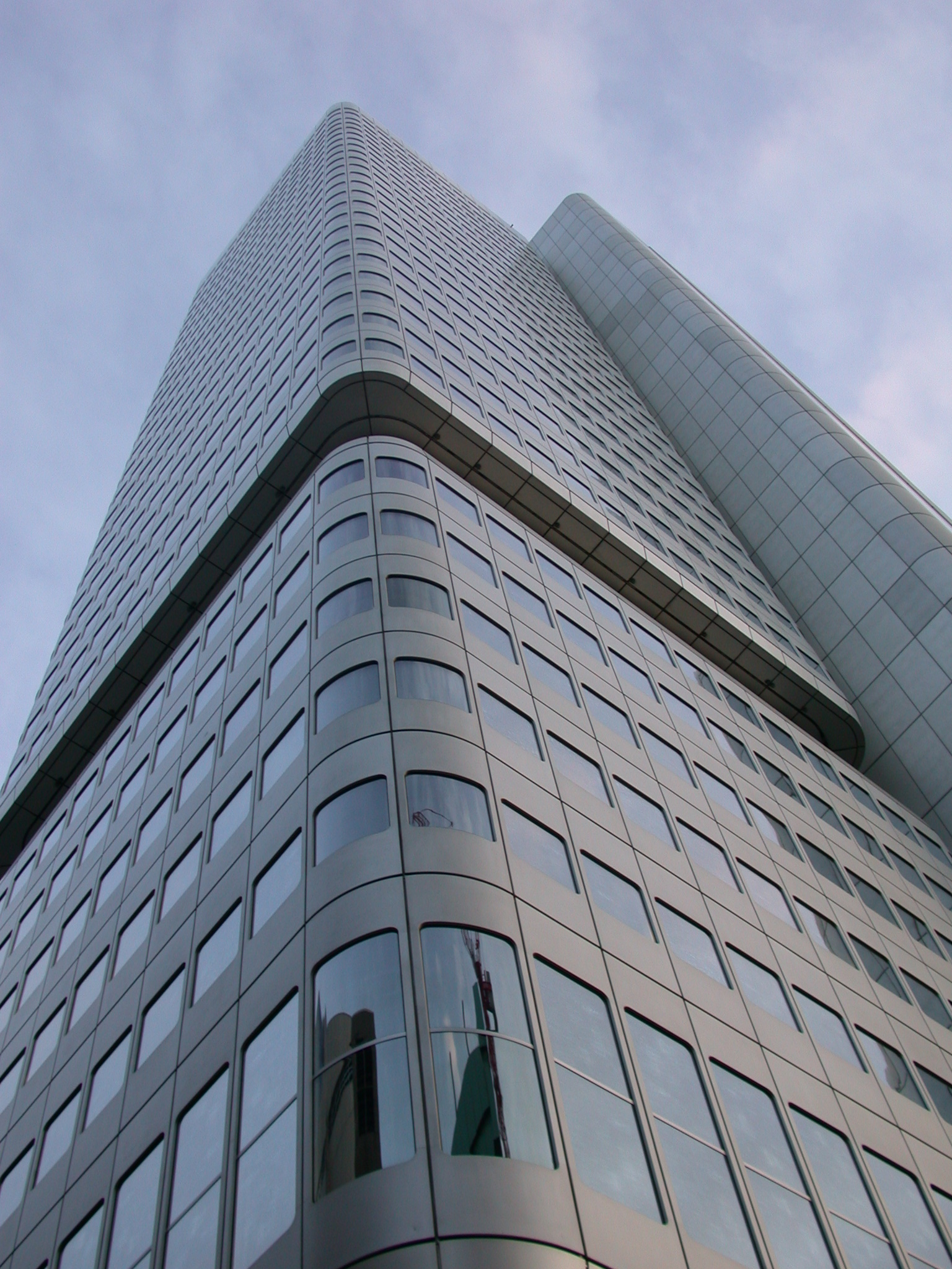 Silvertower in Frankfurt